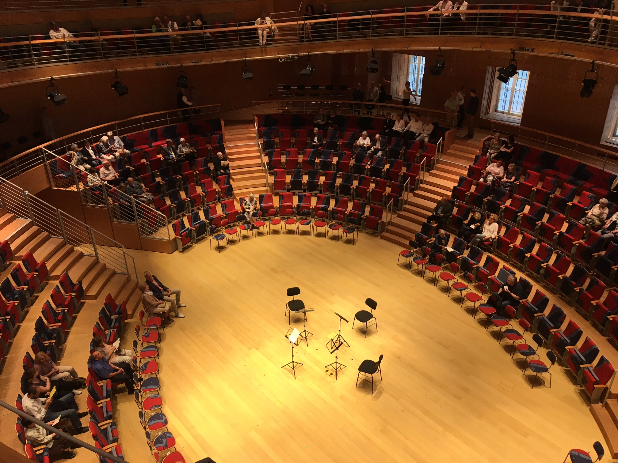 The Pierre-Boulez-Hall, chamber music hall of the Barenboim-Said-Academy, in the city center of Berlin